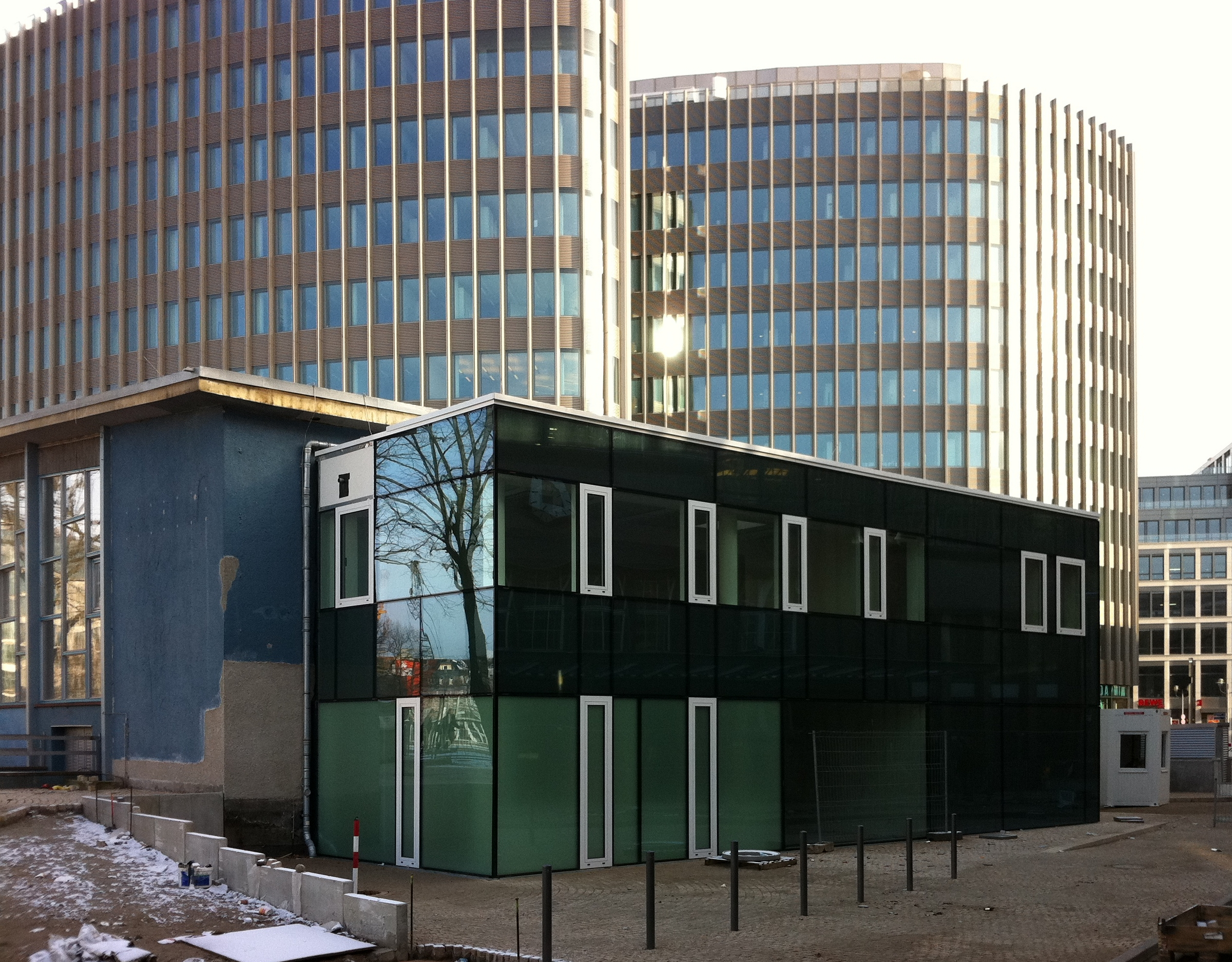 Part of the former frontier between West- and East-Berlin at Railwaystation “Friedrichstrasse”. "Tränenpalast" means "tears palace", new extension.. After the revolution of 1989 and German reunification, the building was used as an event hall for concerts, parties, etc. In July 2006, the Palace of Tears was closed and then renovated. Here, the building was restored to the original state of 1962. Since September 2011, the former check-in hall of the border crossing point is used by the Bonn Haus der Geschichte der Bundesrepublik Deutschland as a branch office. With free entry there will be the permanent exhibition "GrenzErfahrungen. Everyday life of the German division" shown there.